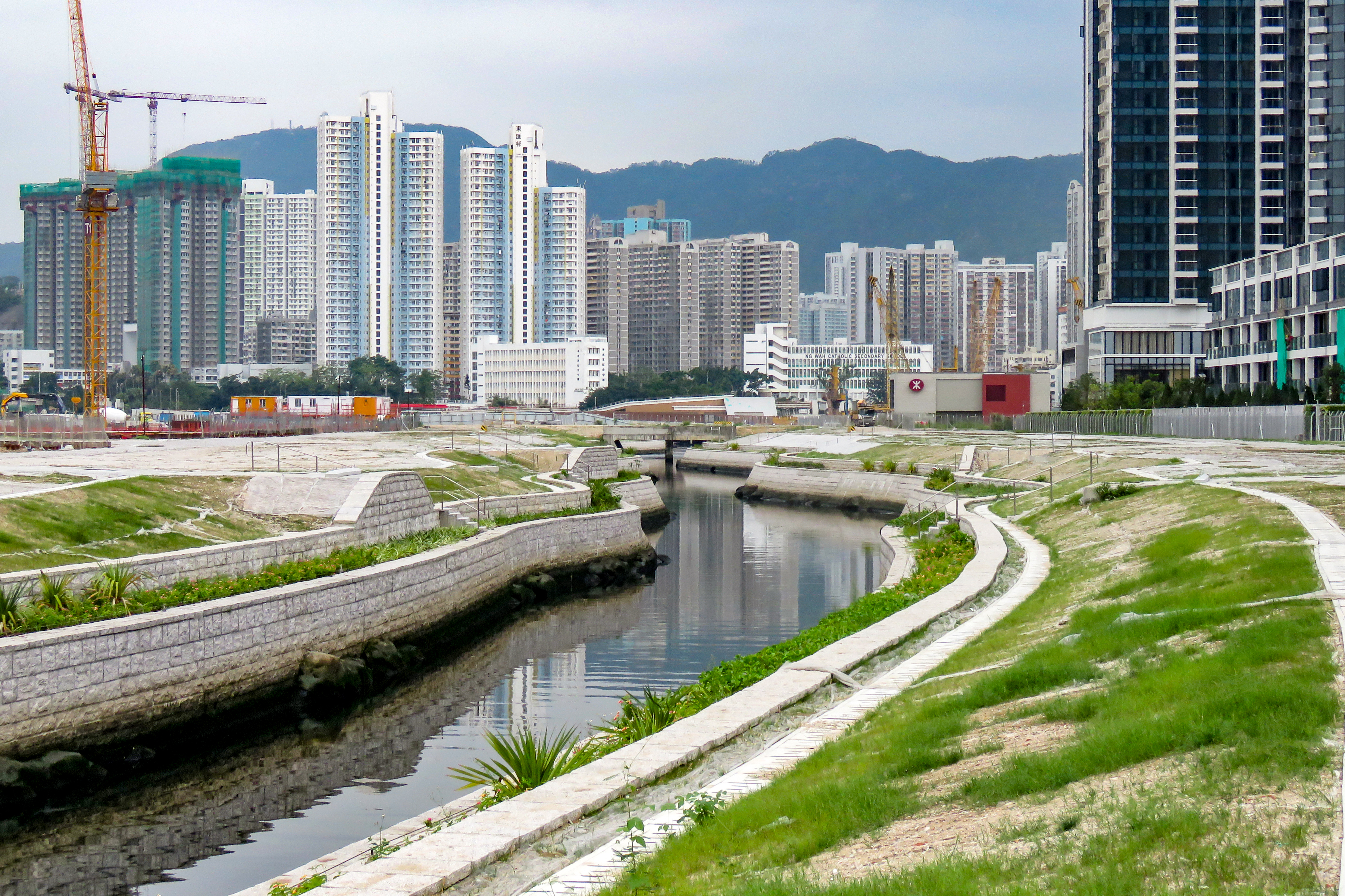 East of the old airport...